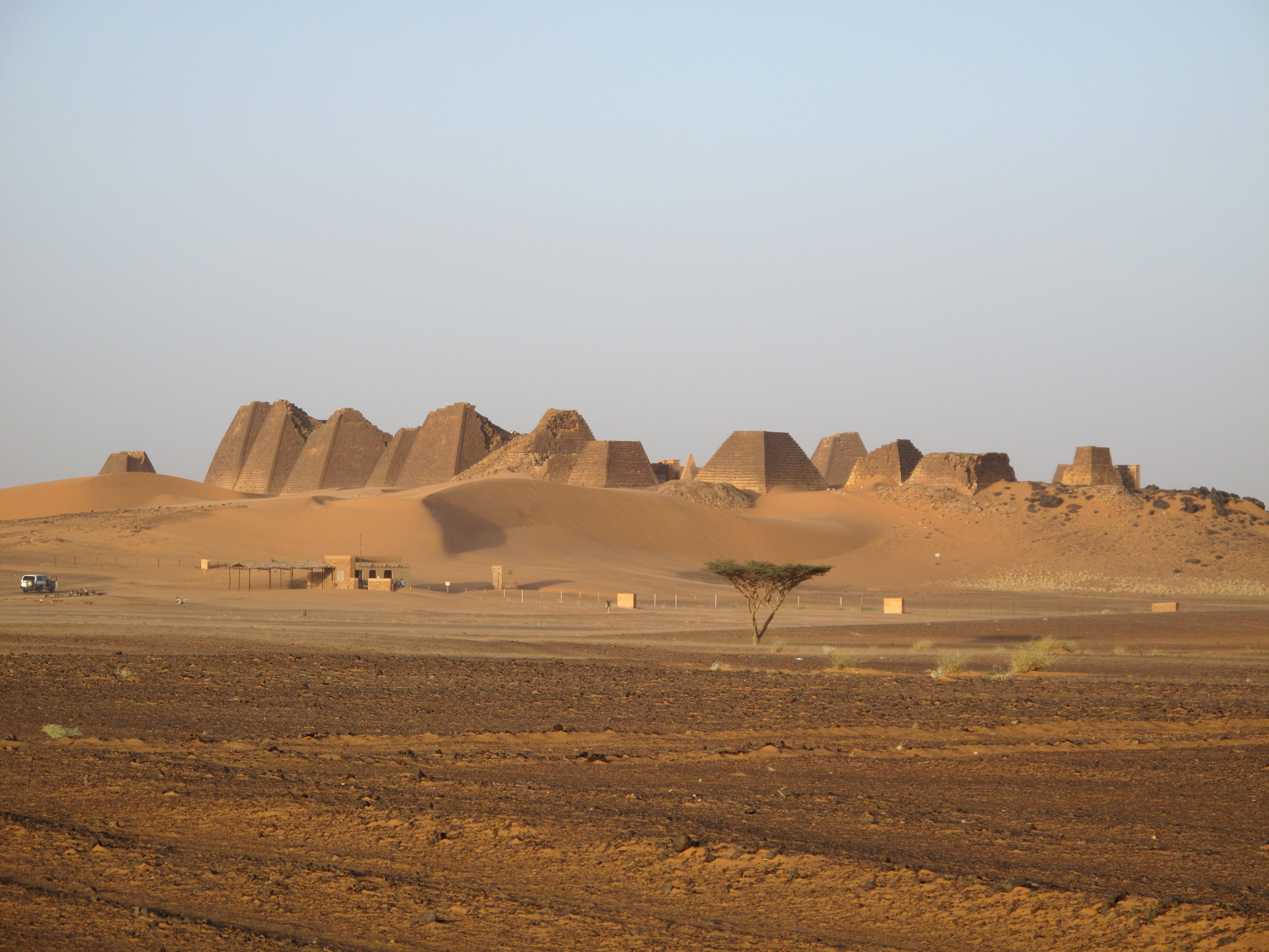 Archaeological Sites of the Island of Meroe (Sudan)